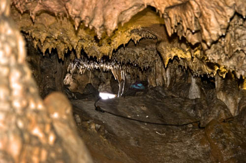 Ghoori Ghaleh Cave